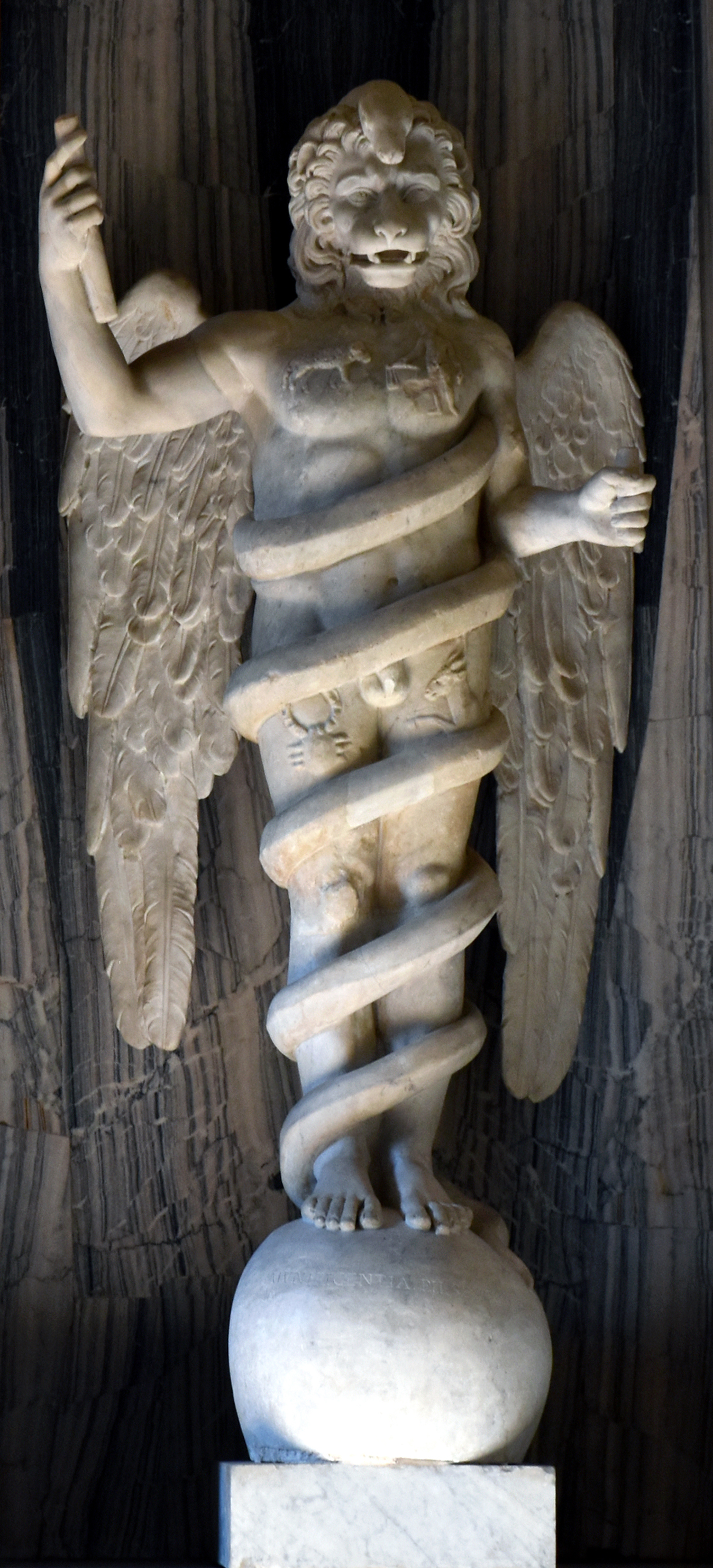 Leontocephaline, in Musei Vaticani.